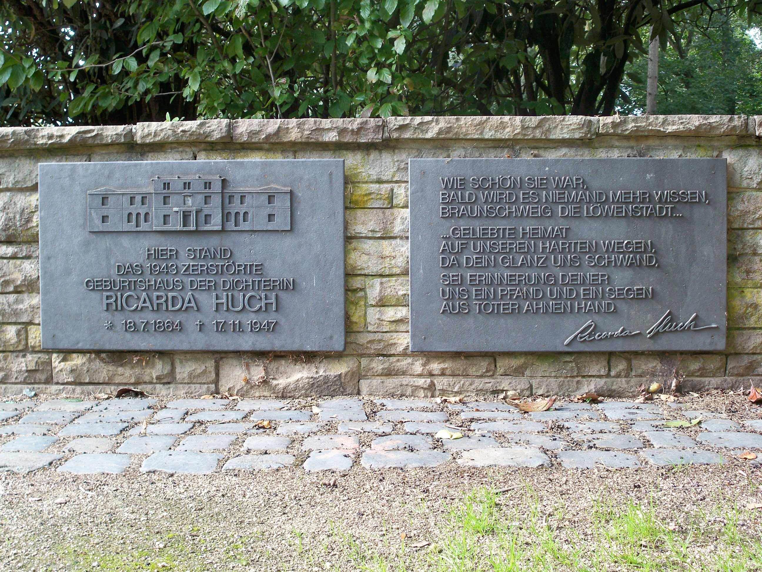 Brunswick, Lower Saxony, Commemoration board marking the site of the birthplace of poetress Ricarda Huch in today's Inselwallpark and the bombing of Brunswick